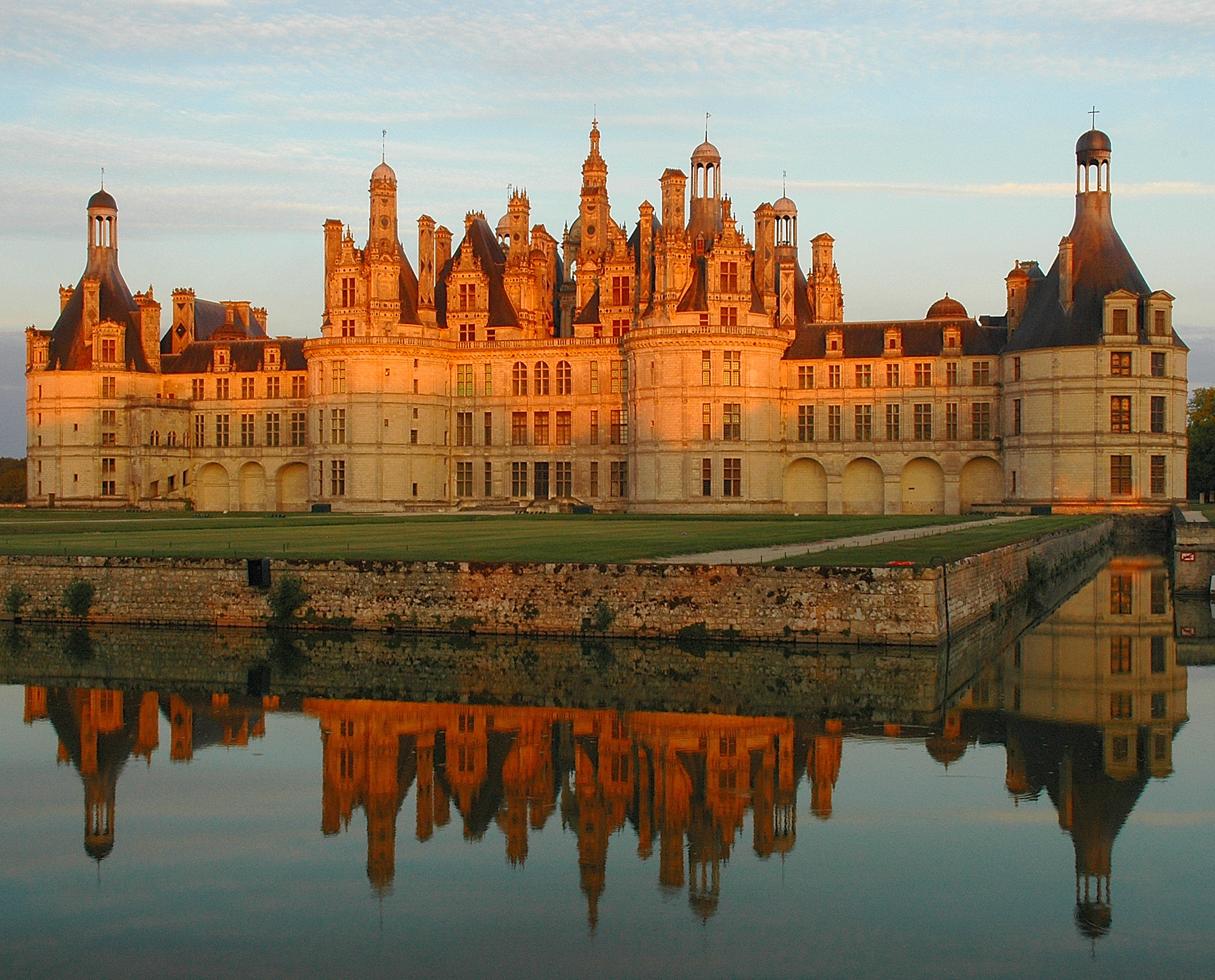 Chateau de Chambord (in the evening) - In the land of the bourbones